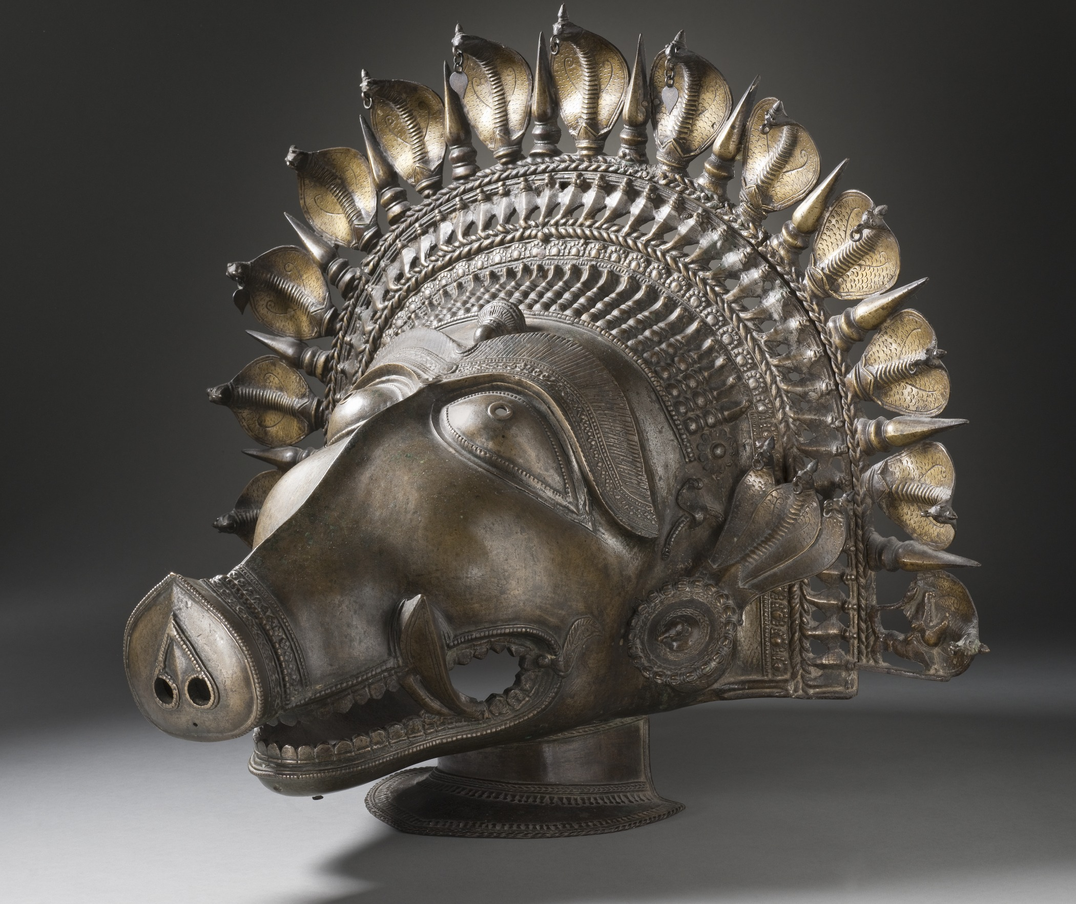 India, Kerala, 18th century Sculpture Copper alloy South and Southeast Asian Acquisition Fund (M.2005.49a-b) South and Southeast Asian Art